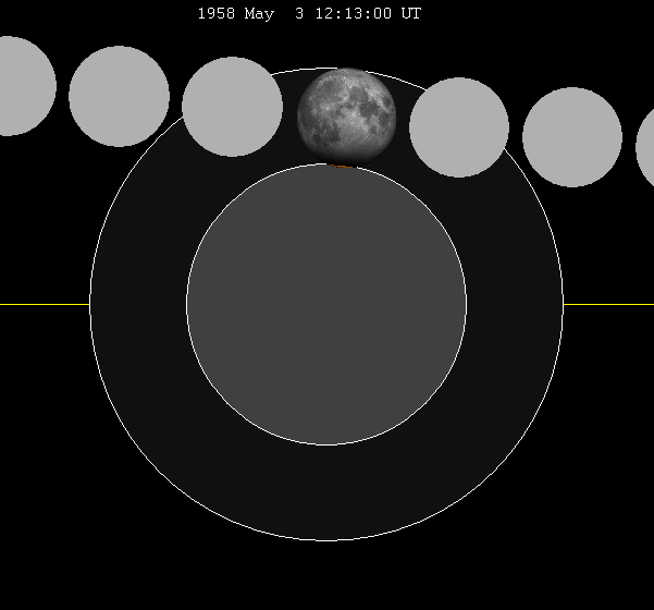 May 1958 lunar eclipse chart of moon's path through the earth's shadow. thumb